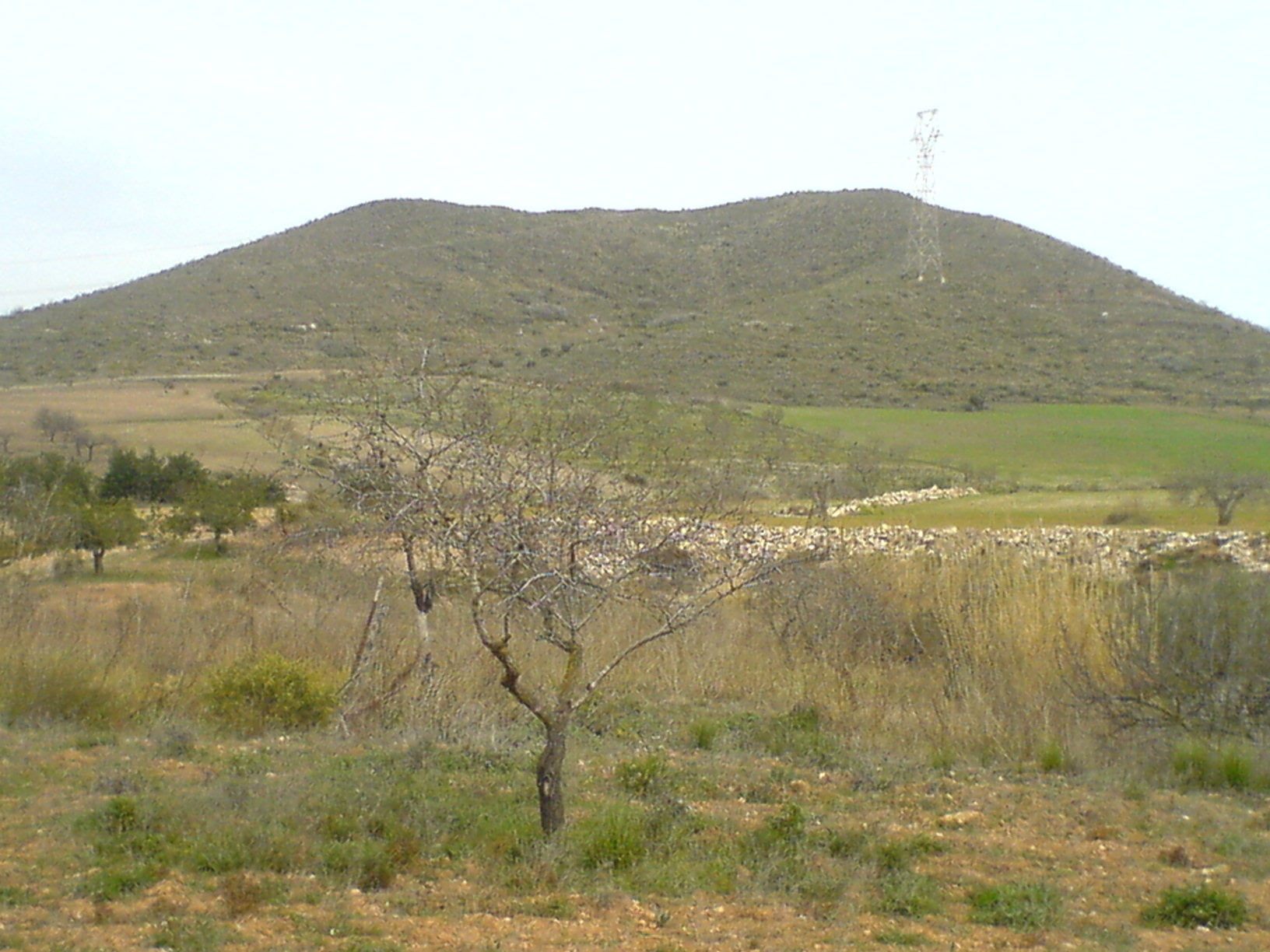 Photo of Cabezo Negro Volcano in Tallante